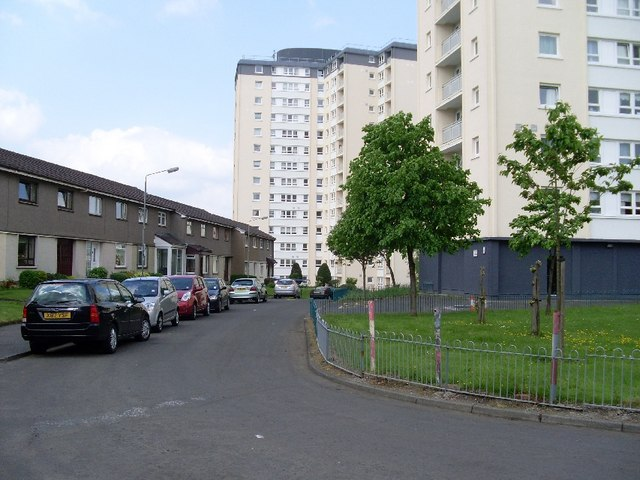 Keal Crescent, Blairdardie Quiet residential area in the west of Glasgow.